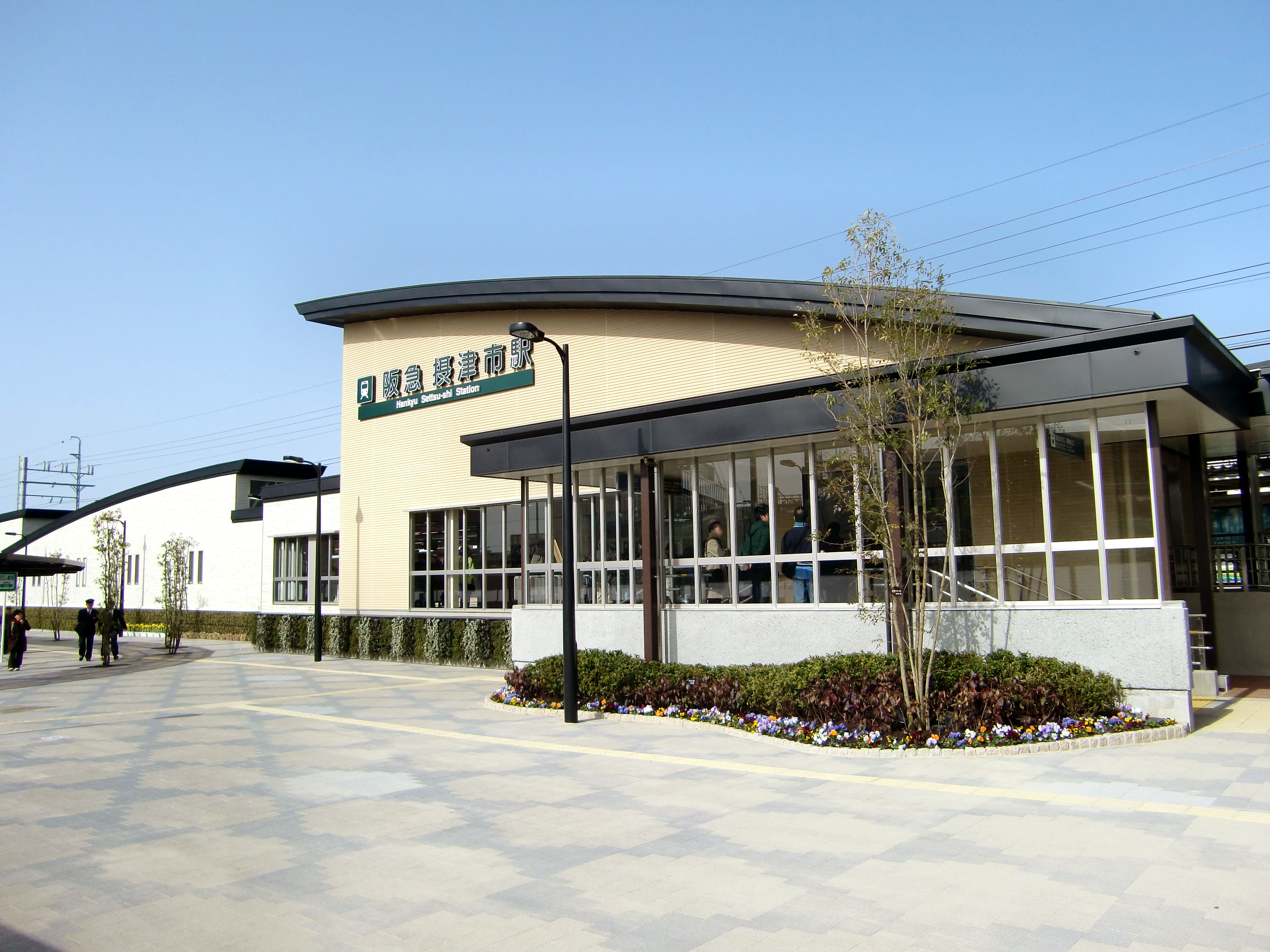 Hankyu Railway Settsu-shi Station,Settsu-City Osaka Japan.